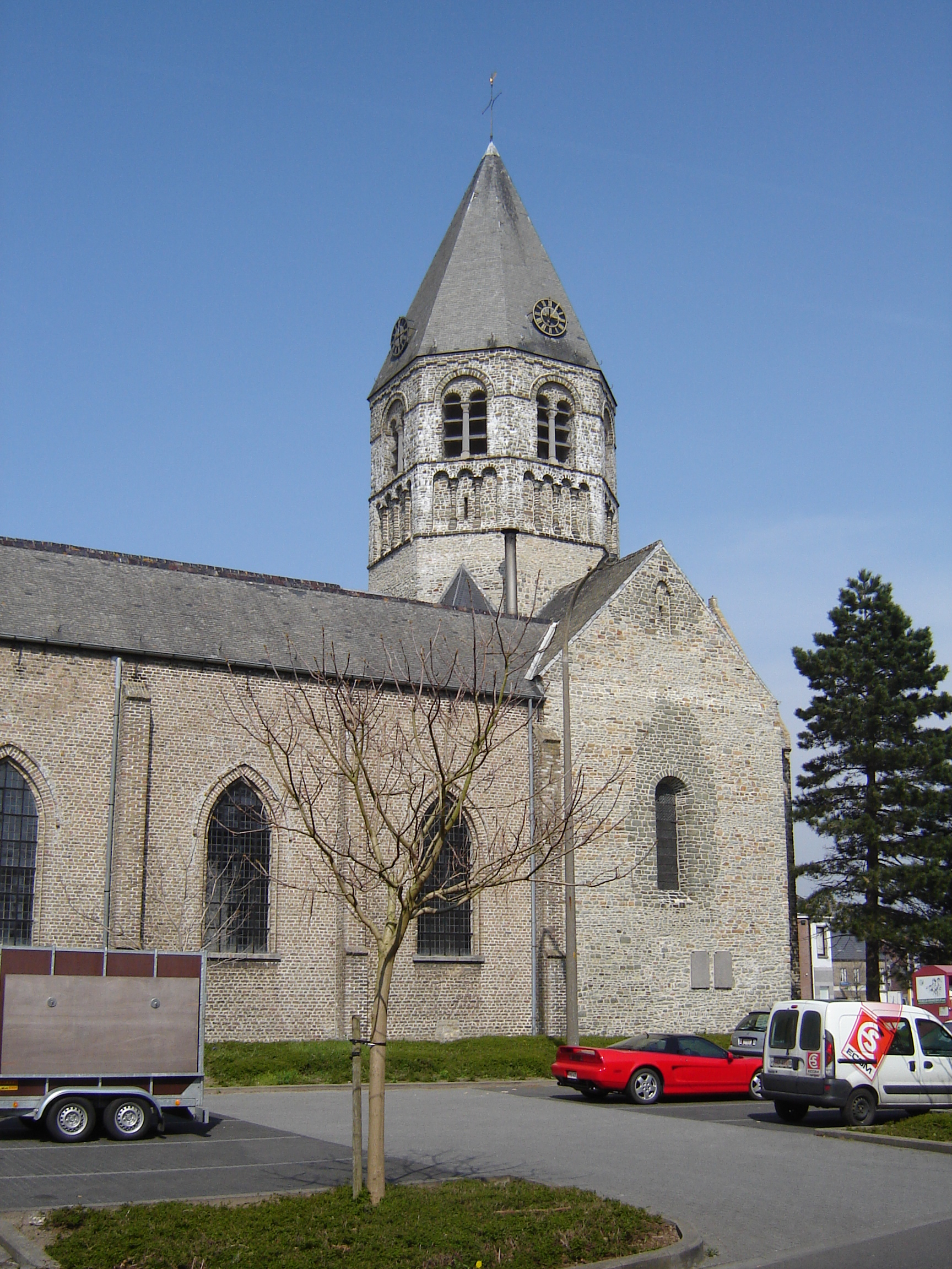 Church of Saint Michael in Ichtegem. Ichtegem, West-Flanders, Belgium